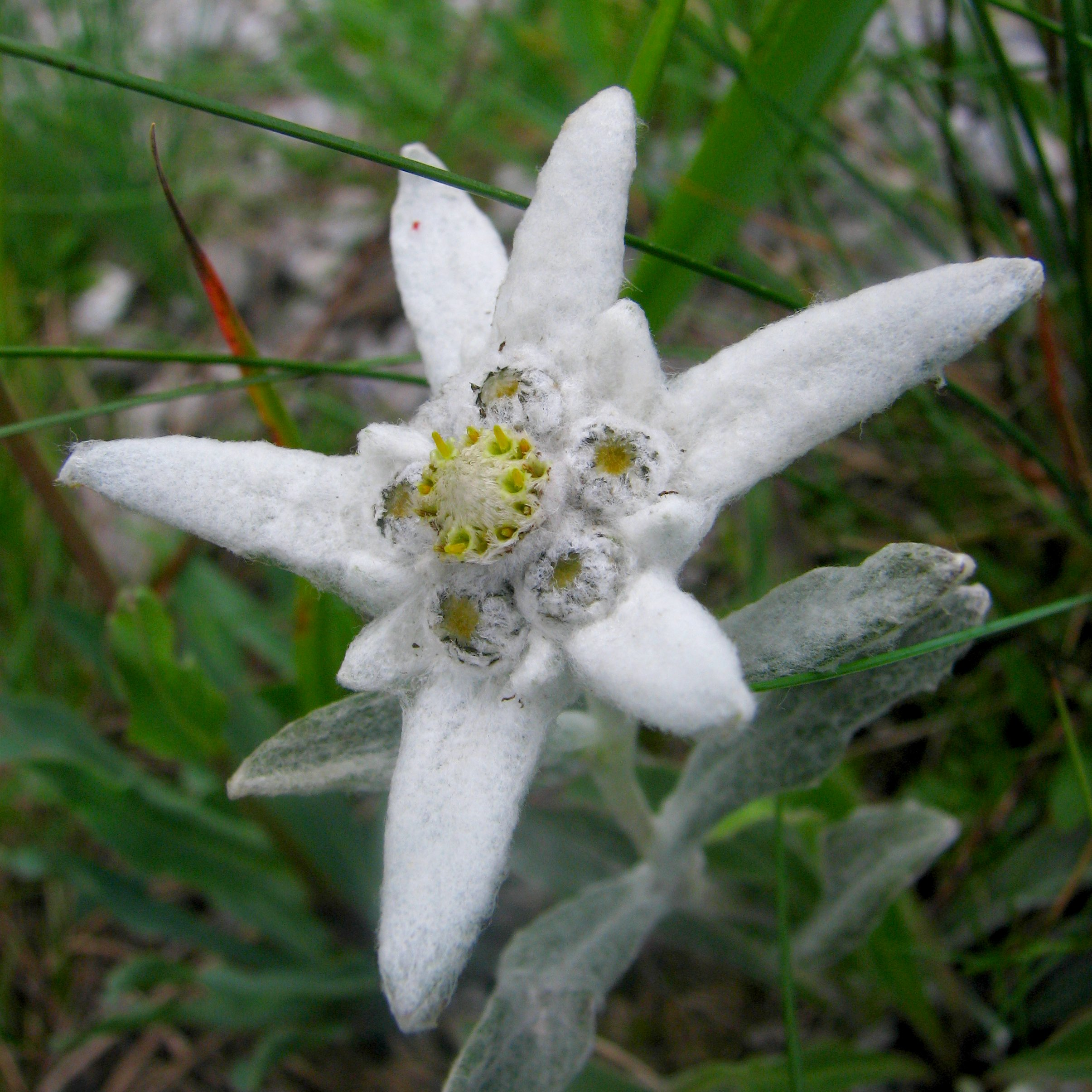 Edelweiss (Leontopodium nivale subsp. alpinum (Cass.) Greuter, syn. Leontopodium alpinum Cass.) in fower. Nosal, Tatra National Park, Poland.